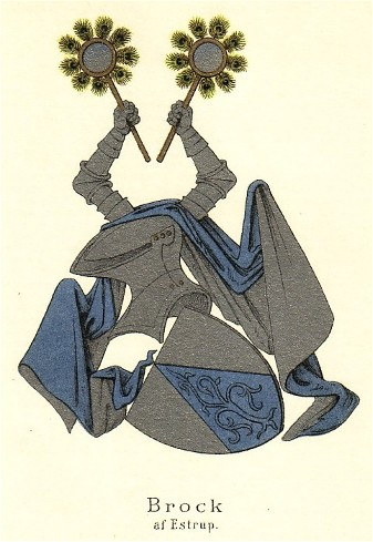 Coat of arms of the Brok of Estrup family